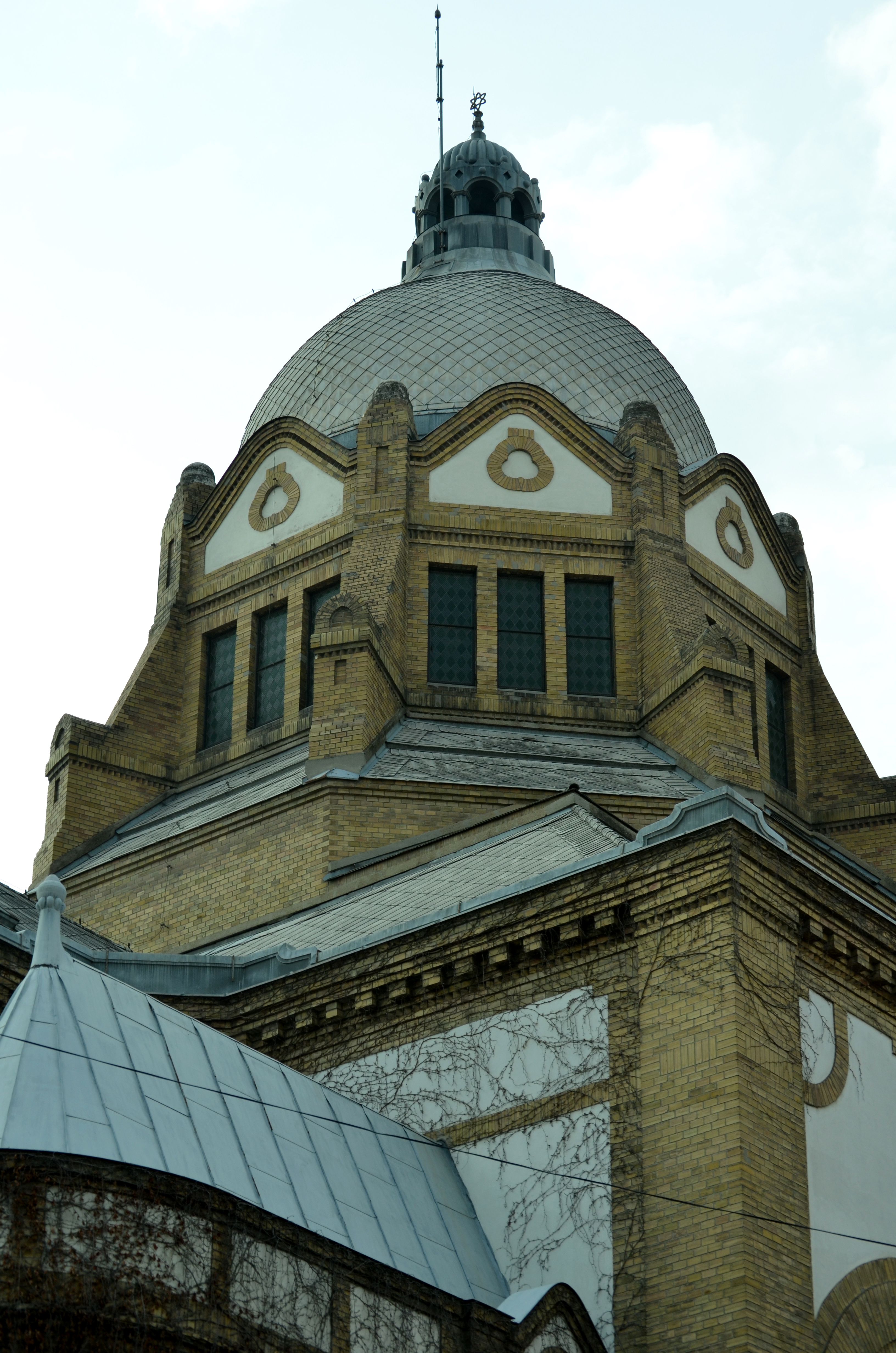 Novi Sad Synagogue is one of many cultural institutions in Novi Sad, Serbia, in the capital of Serbian the province of Vojvodina. Located on Jevrejska (Jewish) Street, in the city center, the synagogue has been recognized as a historic landmark. It served the local Neolog congregation. It was built between 1906 and 1909.